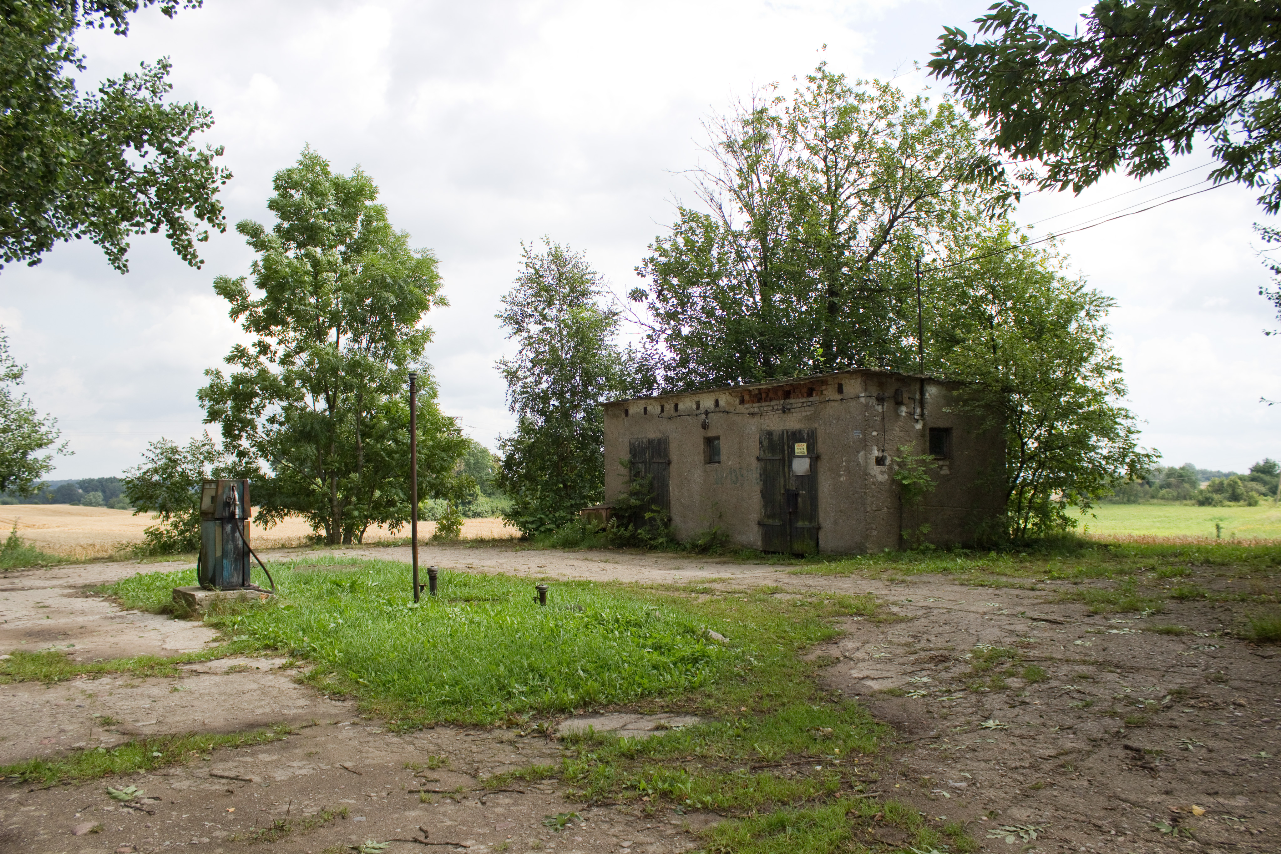 Budziska, gmina Mrągowo, powiat mrągowski, Warmian-Masurian Voivodeship